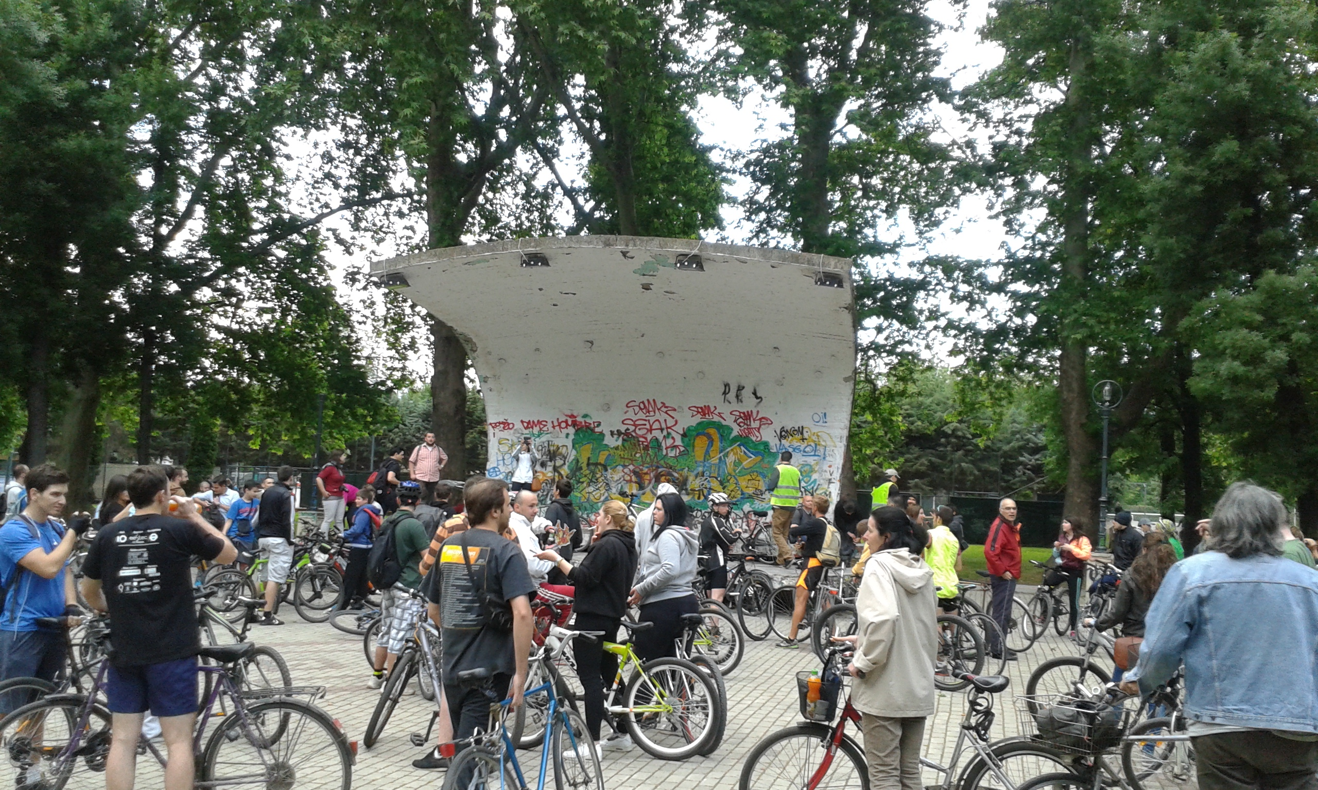 The end of the 37th Critical Mass in Skopje